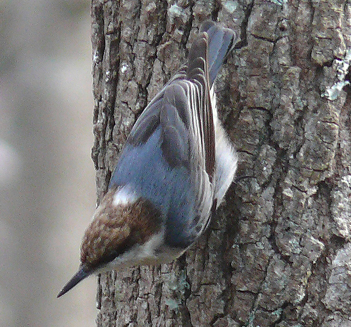 A Brown-headed Nuthatch (Sitta pusilla).Photo taken with a Panasonic Lumix DMC-FZ50 in Johnston County, North Carolina, USA.